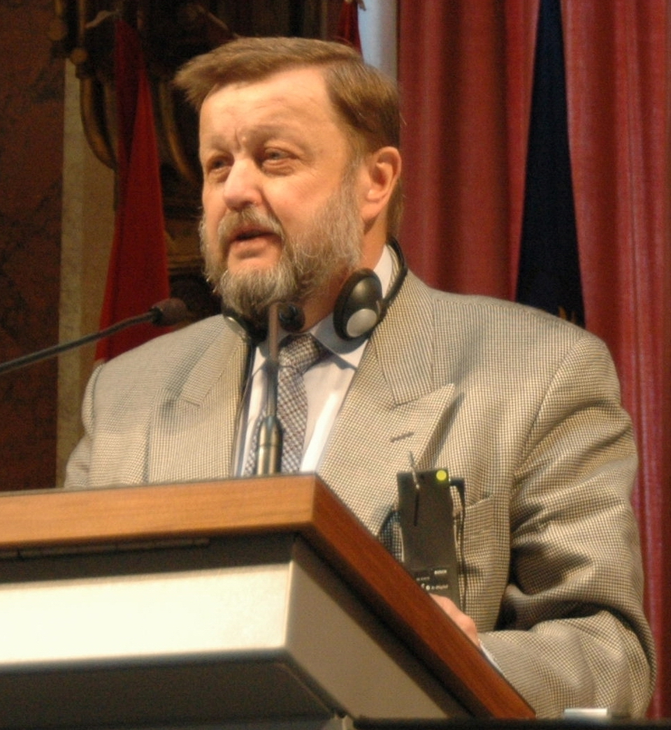 Prof. Dr. József Zachar at the "International Napoleon Symposium 2009" in Vienna